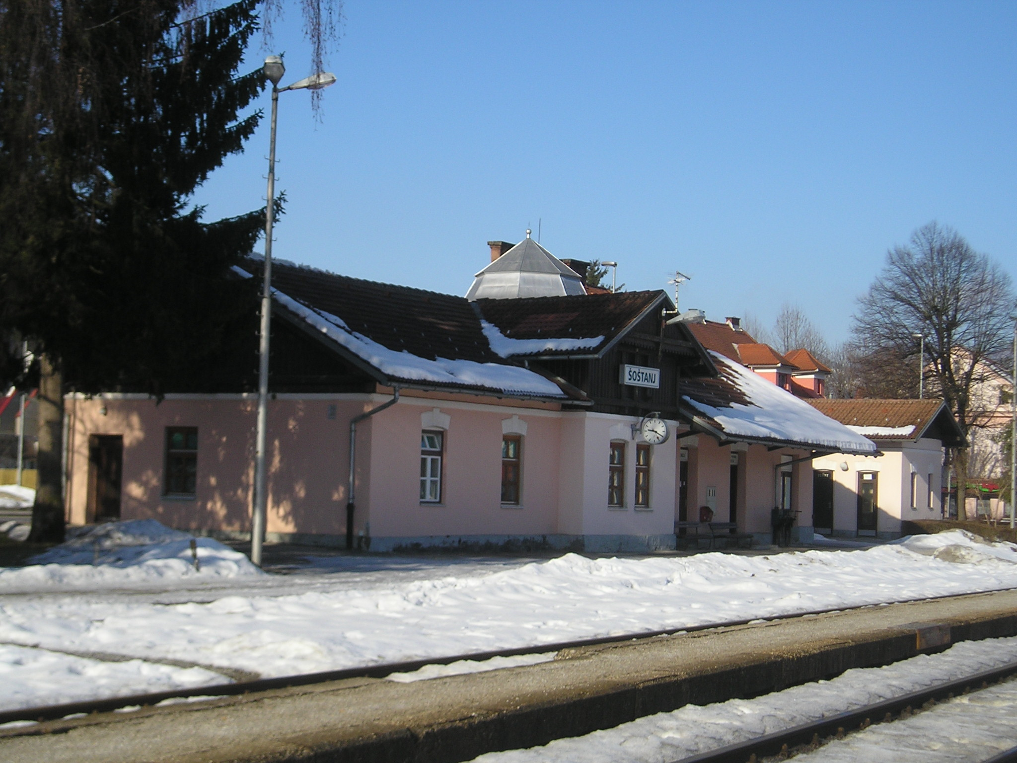 Train station in Šoštanj, Slovenia